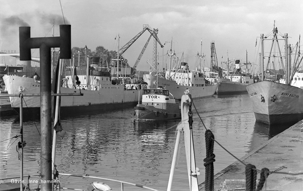 Gävle inner harbour, with boats. Inre hamnen i Gävle, med båtar. Parish (socken): Gävle Province (landskap): Gästrikland Municipality (kommun): Gävle County (län): Gävleborg Photograph by: Unknown. Almquist & Cöster Date: 1940-1959 Format: Cliché, glass plate with text Persistent URL: Read more about the photo database (in english)